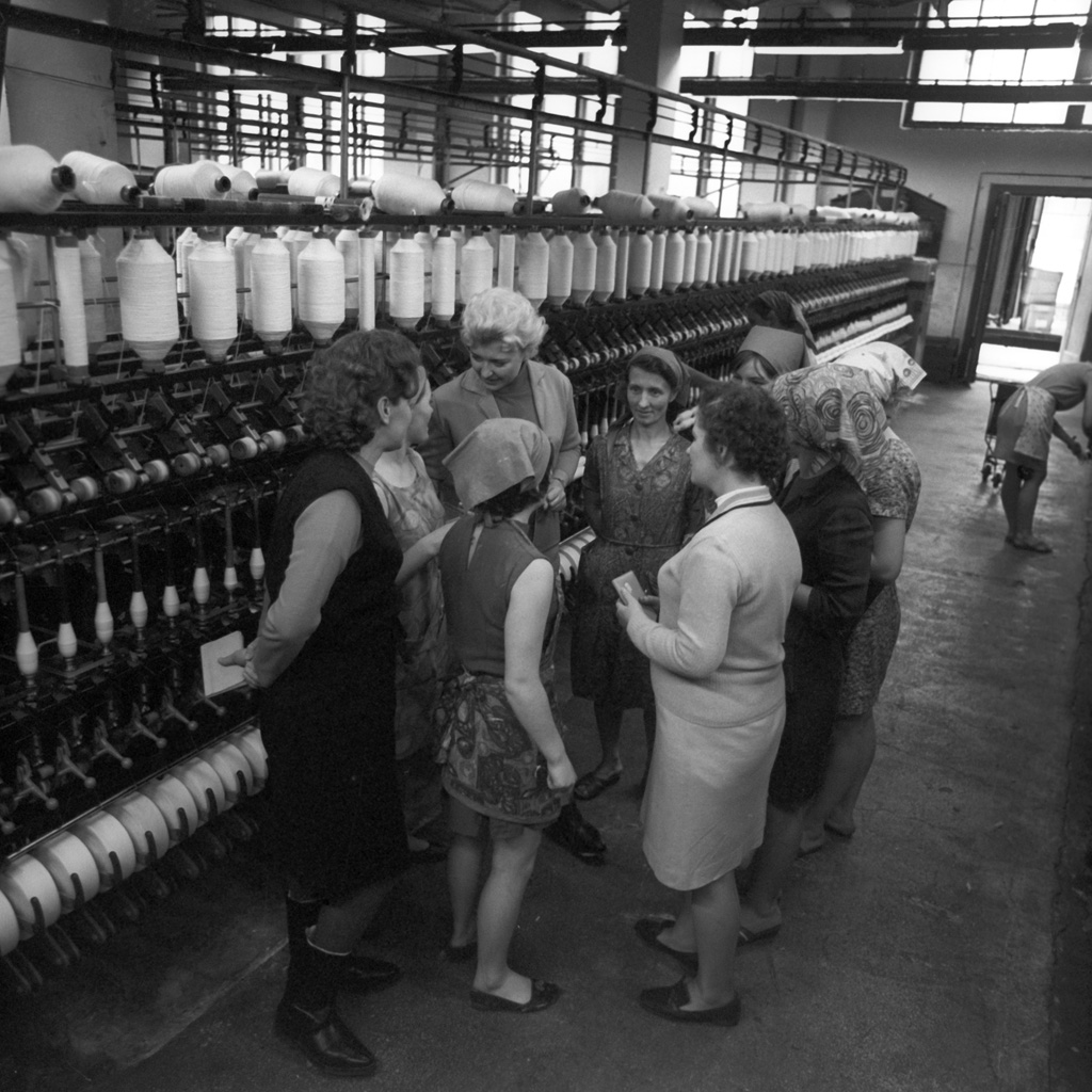 “Lvov cotton mill. Secretary I. Alayeva of Krasnoarmeysky District Committee of CPSU, Lvov, is a mill worker”. The Lvov cotton mill. Secretary I. Alayeva (center) of the Krasnoarmeysky District Committee of the CPSU, Lvov, is a mill worker.